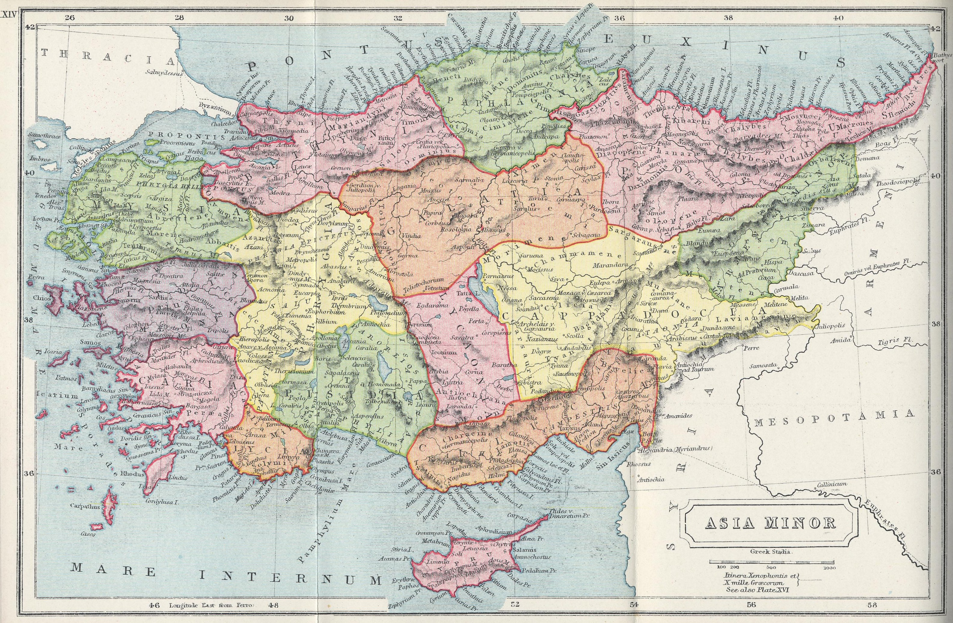 Old map of Turkey The Atlas of Ancient and Classical Geography by Samuel Butler